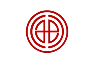 Flag of Iwami Tottori